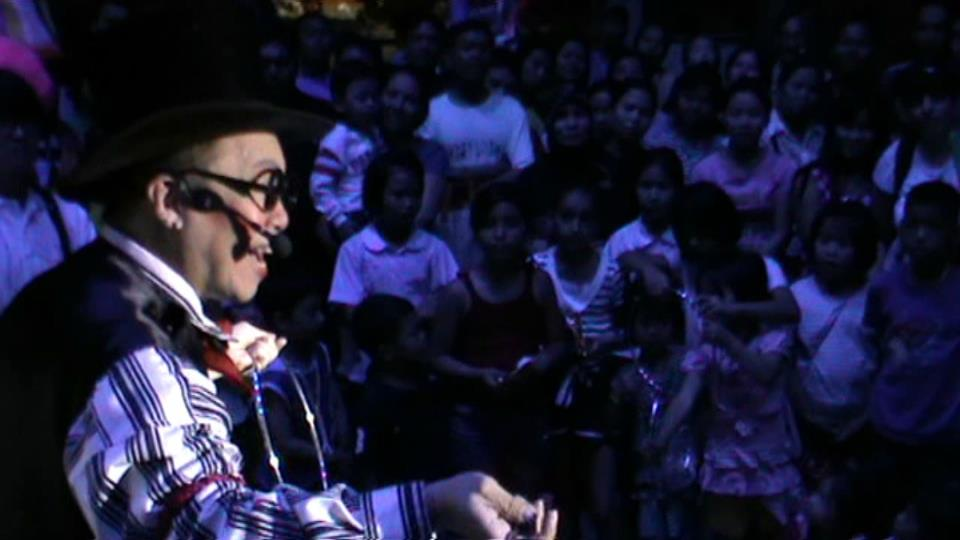 2011, Peter Yee a funny magician look while he performed at Palladium, Pratunam Bangkok Thailand.